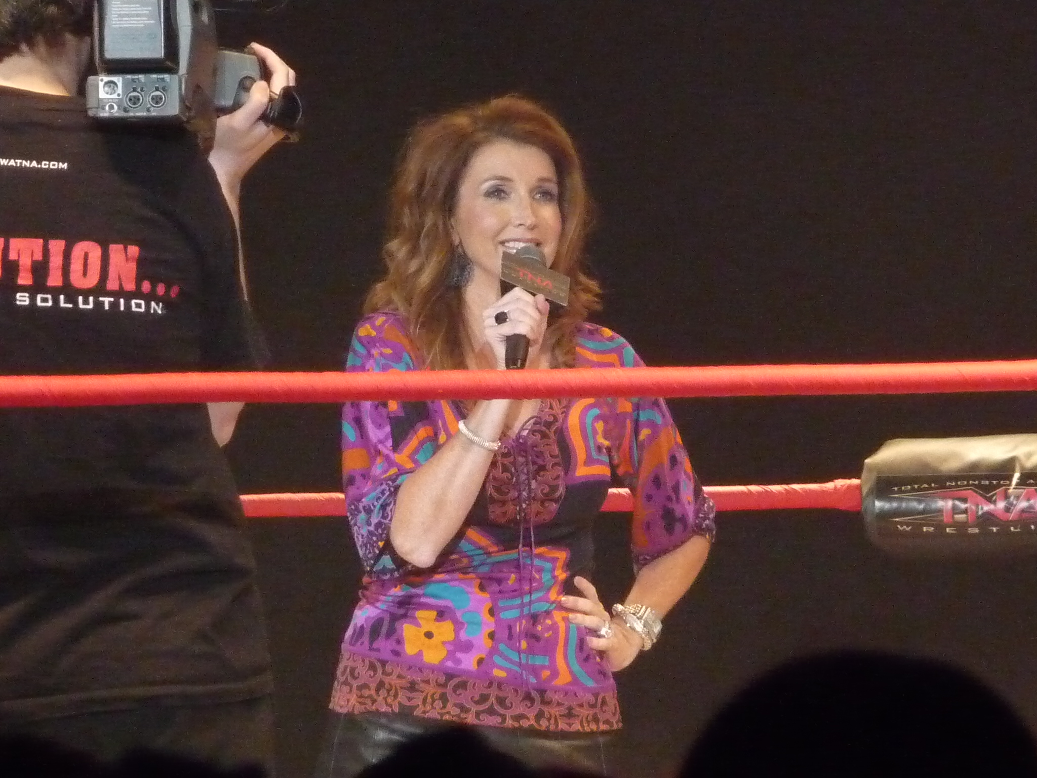 Professional wrestling executive Dixie Carter addressing fans at a TNA house show at Wembley Arena on January 30, 2010.